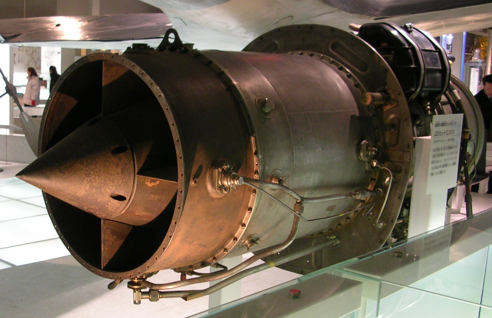 J3-IHI-3 turbojet engine exhibited at National Science Museum of Japan